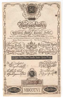 50 Guilder "Bancozettel" from 1806, issued by the Wiener Stadtbanco, the first paper money issued in Austria.